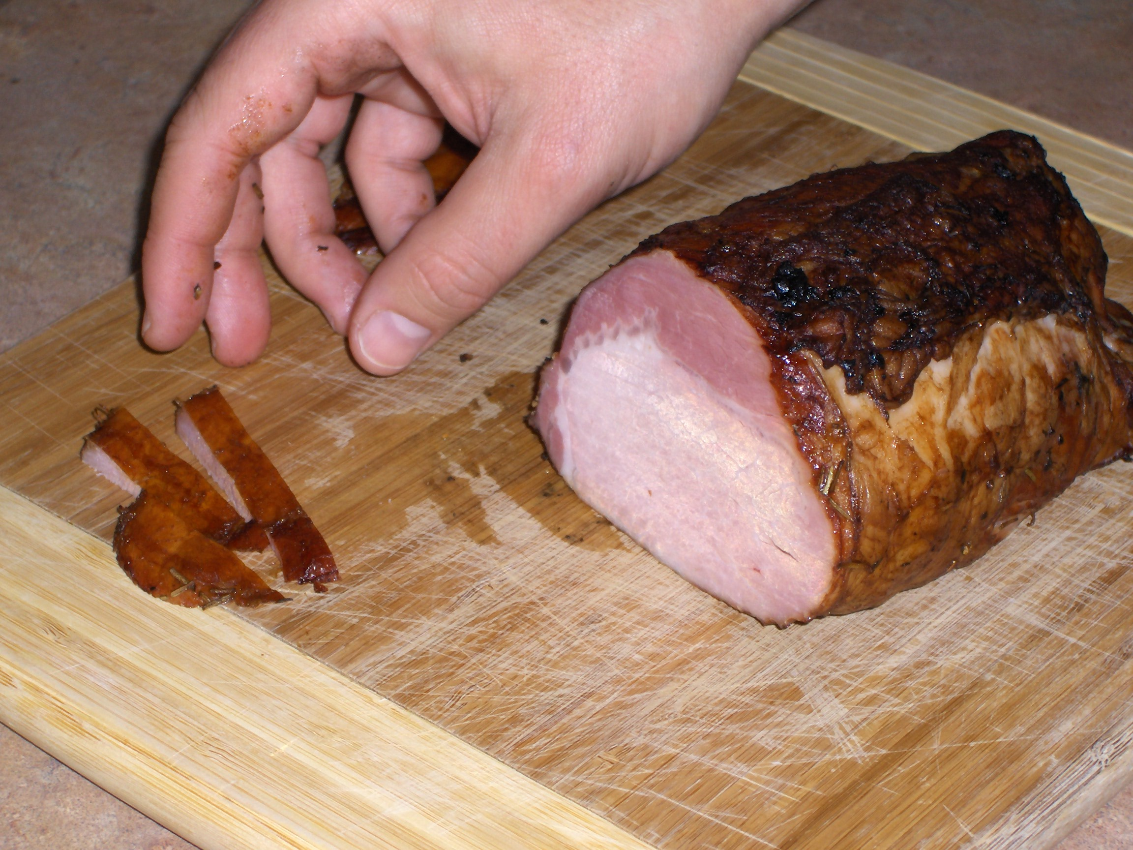 Plain canadian bacon.